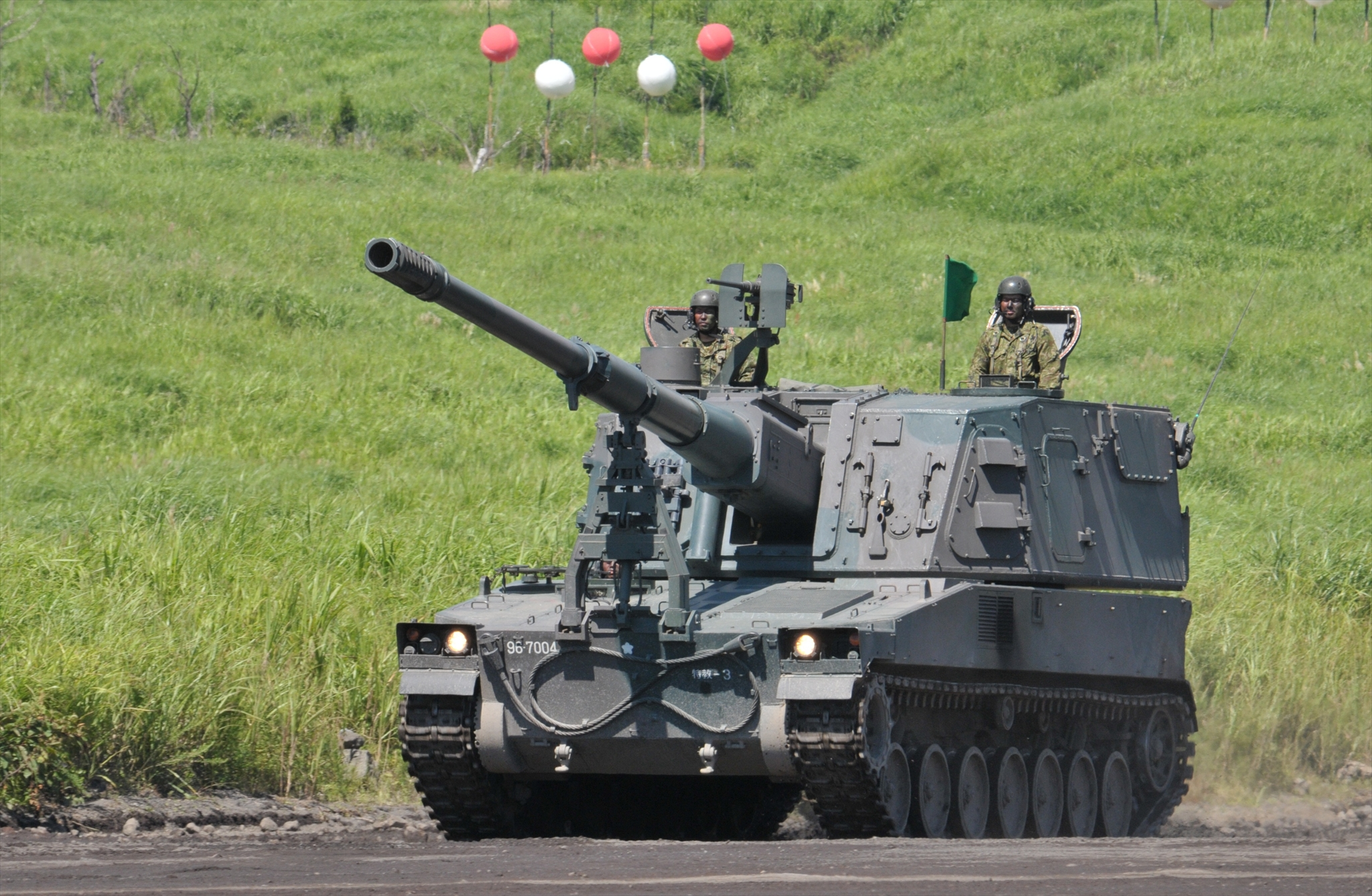 Title ９９式自走１５５ｍｍりゅう弾砲_R.jpg Album 富士総合火力演習・そうかえん 前段演習・特科火力（９９式自走１５５ｍｍりゅう弾砲）